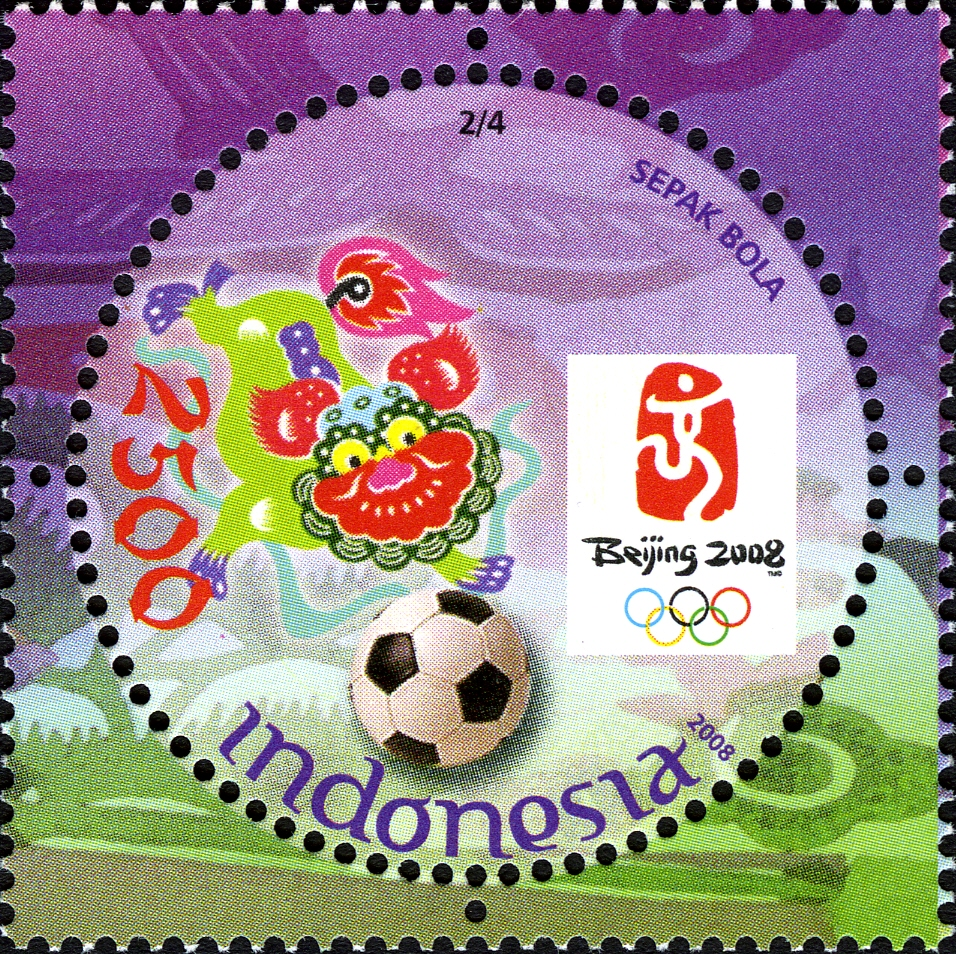 Stamps of Indonesia